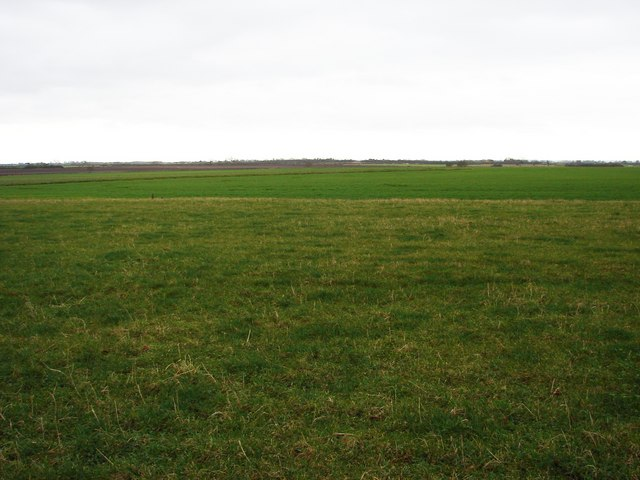 Where's the Footpath? The footpath is not defined even though it appears on the map. Somewhere in the distance to the right of the picture lies the site of the medieval village of Burreth. The occupant of High Cell Farmhouse did not take kindly to my 'trespassing' to the rear of his property. I pointed out that my map clearly showed a public footpath, to which he replied the map was wrong. I would suggest anyone else wanting to walk to the site of the medieval village, should take an alternative route, or incur the dreaded 'Oi You!'. (It is very unusual for an OS map to have incorrect footpaths shown. The farmer was just testing your nerve. Richard Avery) (talk) 17:13, 19 July 2015 (UTC)